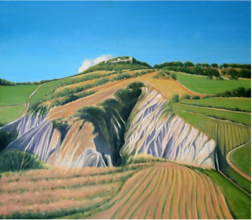 oil on linen